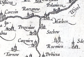 Tuszyma 1612